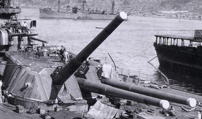 Yamato's main battery 18.1”/45 Type 94; AP 3219#, 2559 fps, max range 45,960 yards @ 45 deg